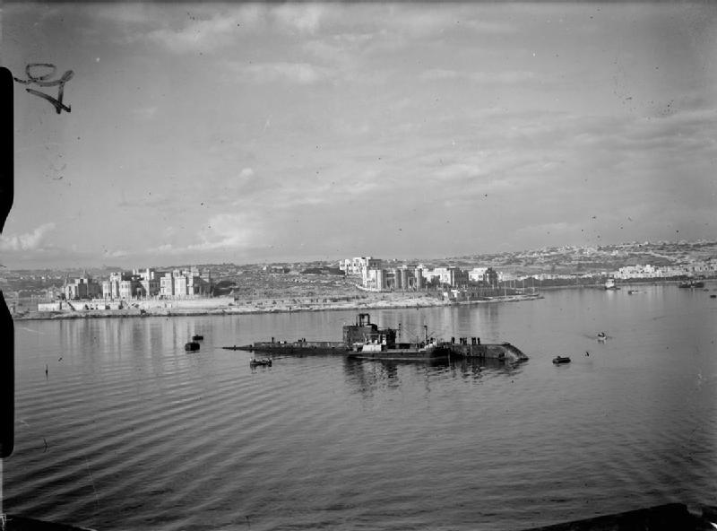 IWM caption : "HMSM OLYMPUS taking in supplies in Manoel Creek, Marsamxett Harbour, Malta."